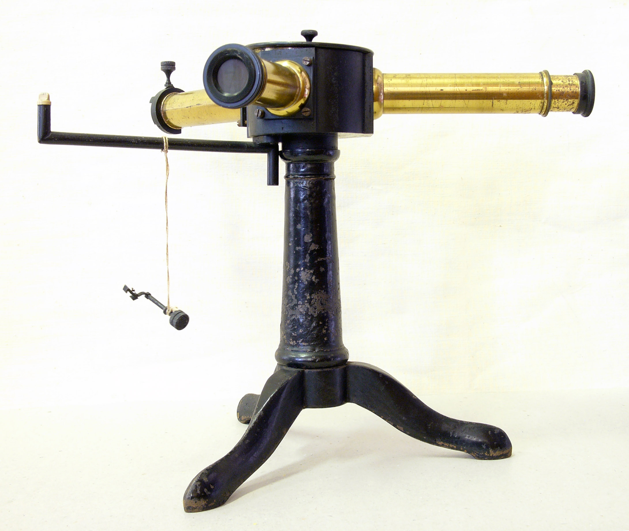 Spectrometer